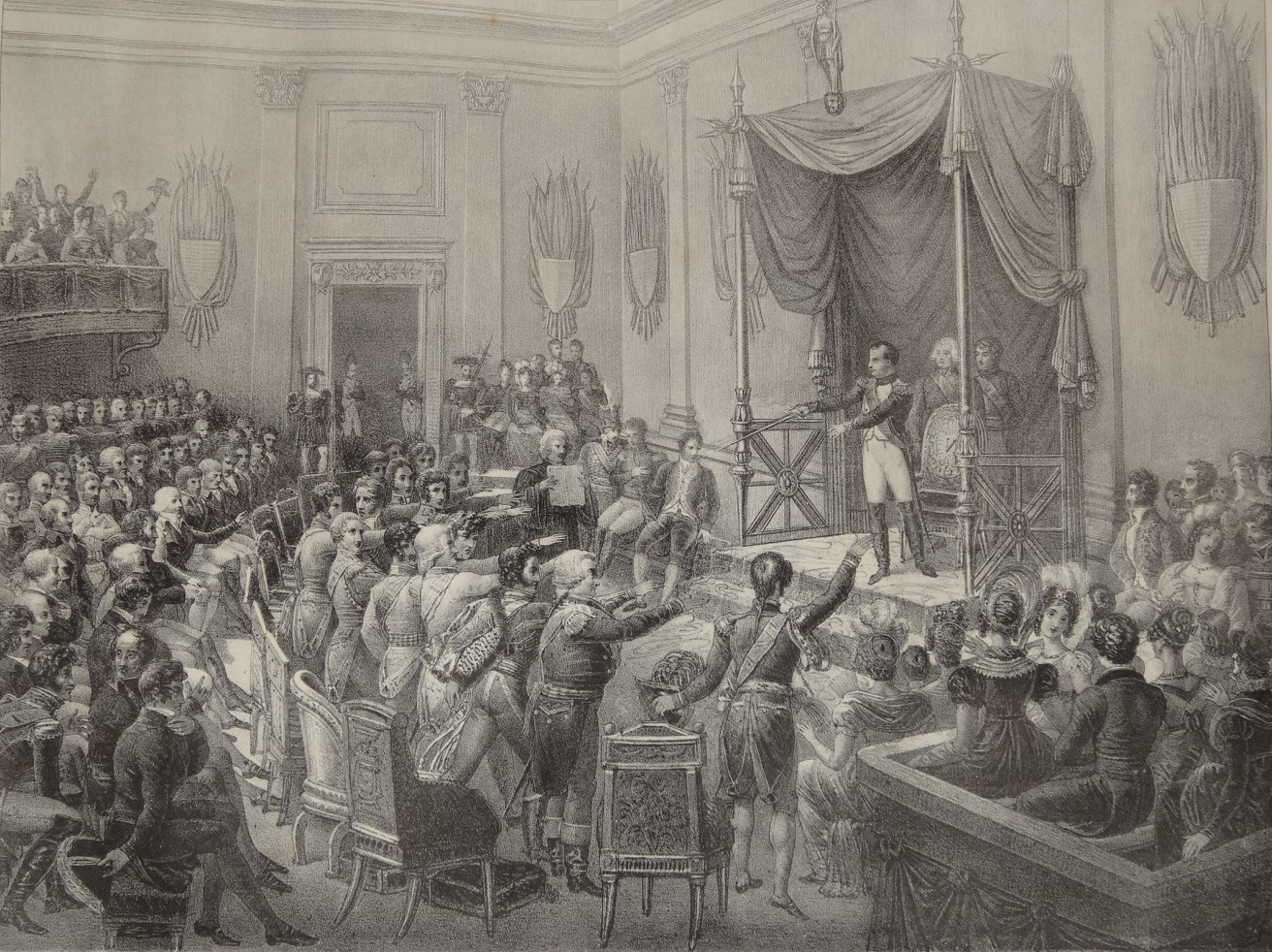 French lithography purporting to depict the swearing-in ceremony at the château of Saint-Cloud near Paris on 19 July 1806, the day the treaty establishing the Confederation of the Rhine was ratified. On the platform, behind Napoleon, is his foreign minister Talleyrand (wearing a white wig). Standing up in the middle are the 16 rulers who joined the Confederation at its inception. The portly man in the foreground is King Maximilian I Joseph of Bavaria. This propaganda engraving does not reflect reality since the rulers of Bavaria, Württemberg and Baden had sent envoys and were not present at the ceremony.